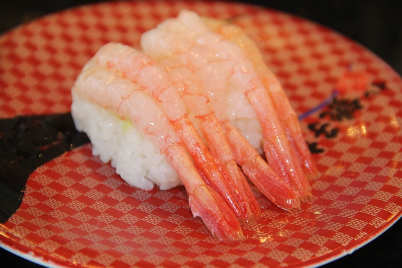 Amaebi-Nigirizushi, Sweet shrimp